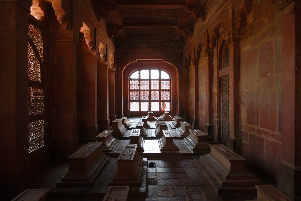 Nawab Islam Khan's Tomb, Fatehpur Sikri